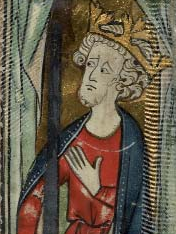 Edward I, King of England as depicted in a thirteenth-century illumination. This image is a cropped version of File:Edward I (Cotton MS Vitellius A XIII, fol. 6v).png.